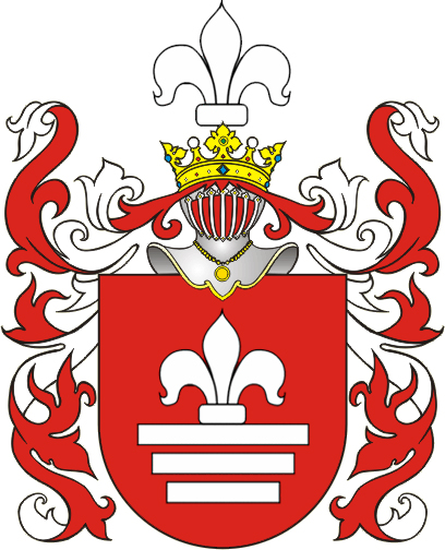 Herb Roch III Clan File:Herb Roch III.svg is a vector version of this file. It should be used in place of this raster image when not inferior. File:Herb Roch III.jpg File:Herb Roch III.svg For more information, see Help:SVG. In other languages